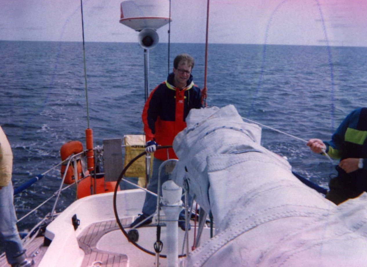 Myself on a sailing trip in the Baltic Sea.